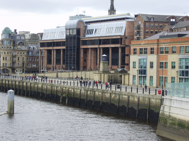 Law Courts, Newcastle (taken From Millennium Bridge)